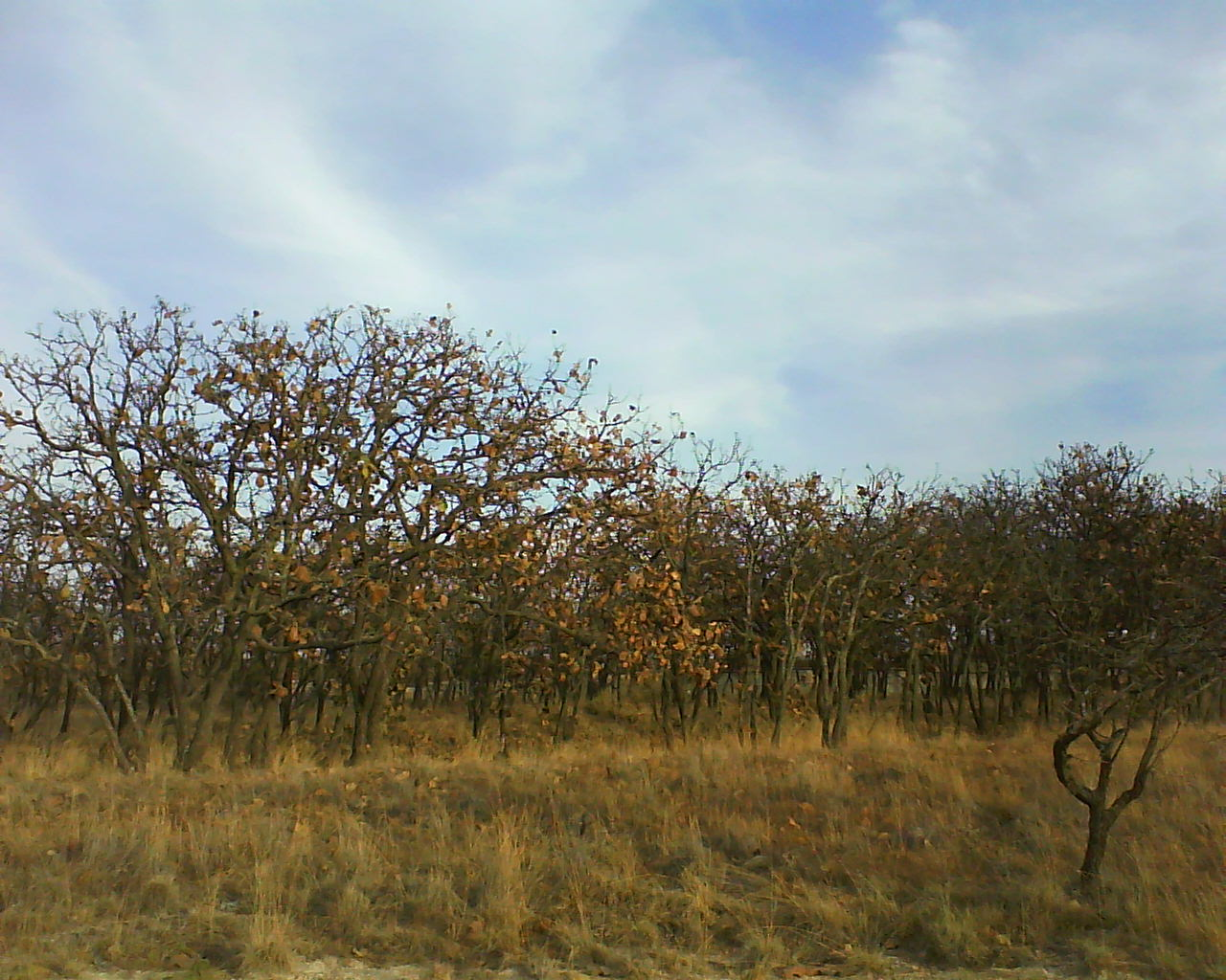 Bosque El Nixticuil. In the Municipalities of Guadalajara and Zapopan, Jalisco state, México.